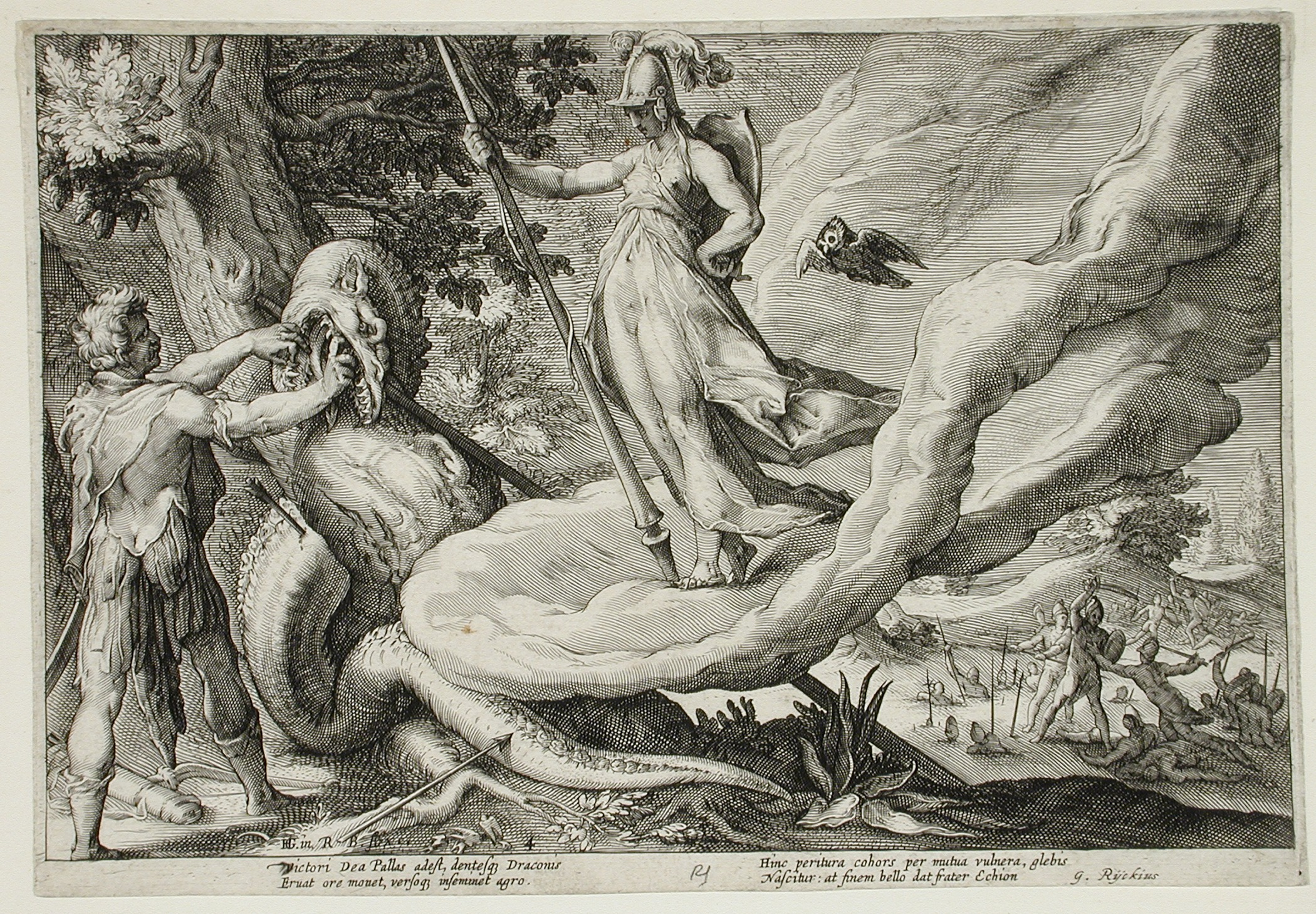 Holland, published 1615 Book: Metamorphoses by Ovid, book 3, plate 4 Prints; engravings Engraving Gift of Mary Stansbury Ruiz (M.83.119.7) Prints and Drawings